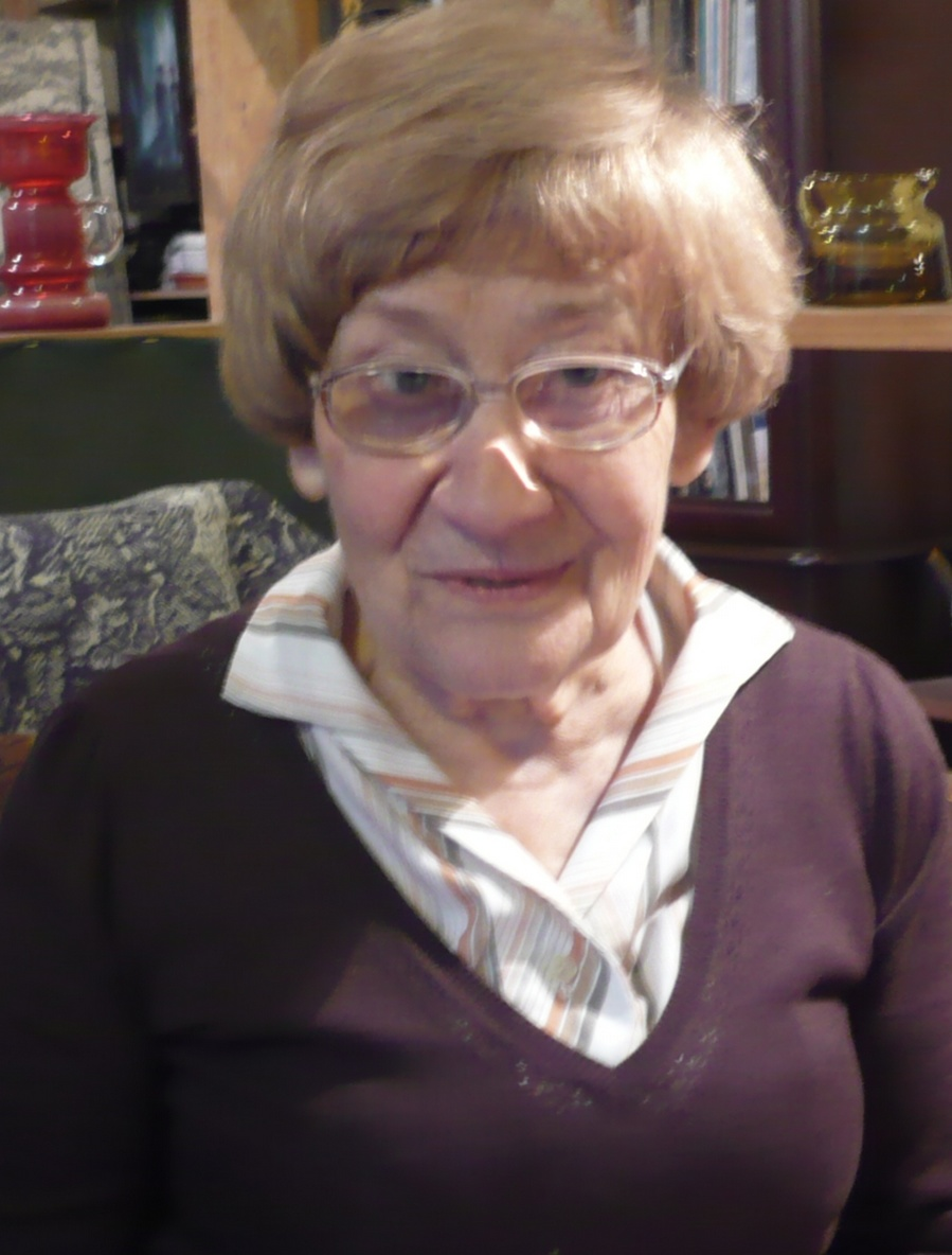 Zofia Pociłowska, Polish Artist in her Studio, Warsaw 2010